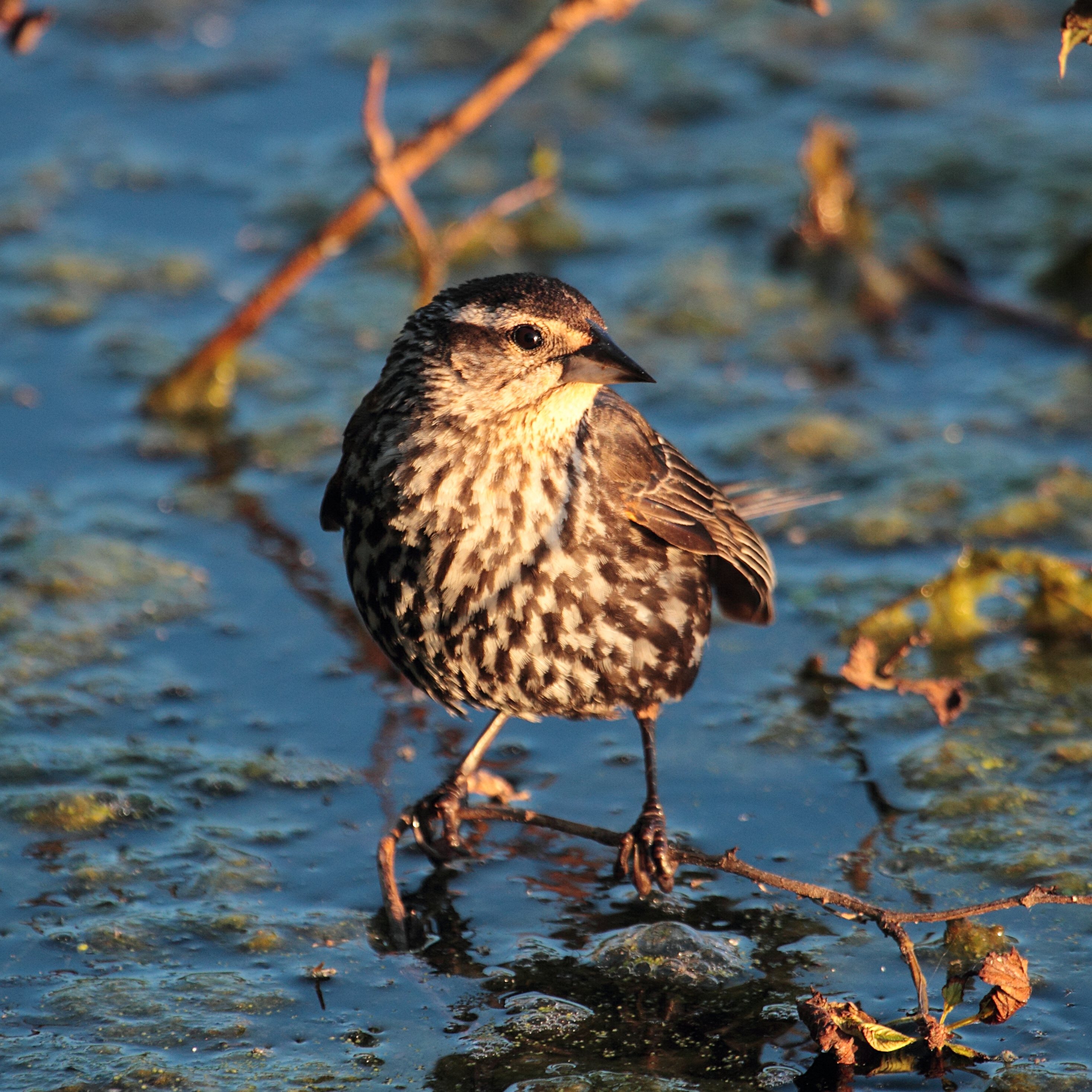 Red-winged Blackbird, female, Léon-Provancher marsh, Quebec, Canada.